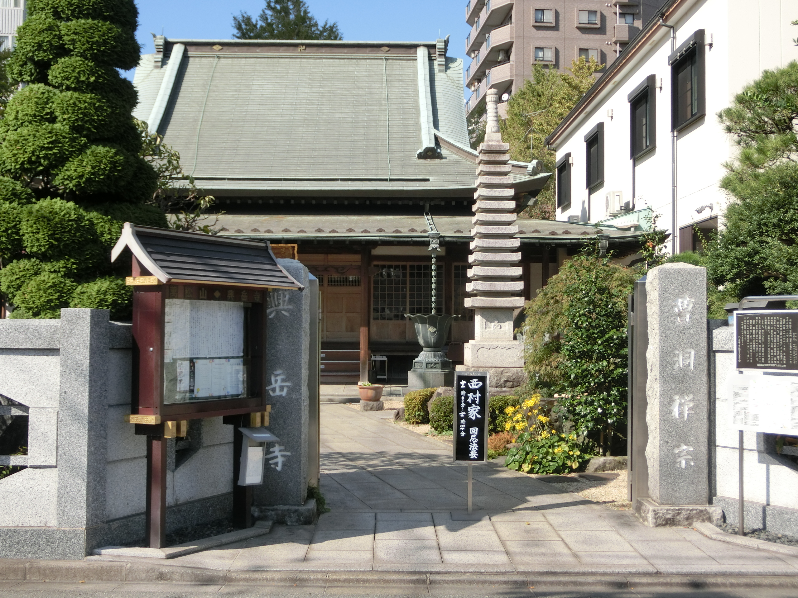 Kogaku-ji (Hachioji)